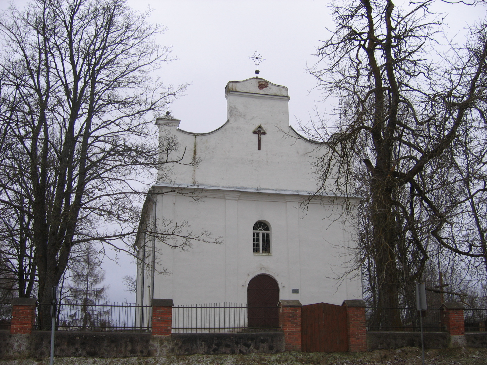 The Roman Catholic Church of the Ascension of Christ in Rundany